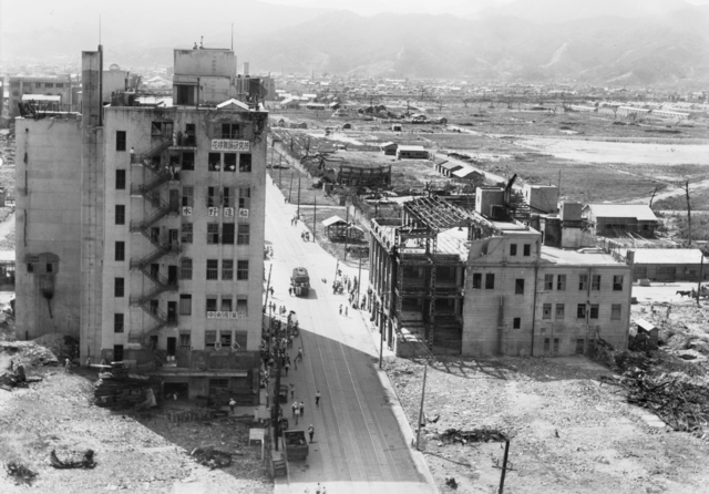 LOOKING NORTH OF THE CITY, SHOWING THE REBUILDING AND CLEARING THAT HAS BEEN CARRIED OUT ONE YEAR AFTER THE ATOM BOMB WAS DROPPED, FROM THE TOP OF THE NEWSPAPER BUILDING, WHICH WAS ONE OF TWO LARGE BUILDINGS LEFT STANDING AFTER THE BOMB WAS DROPPED.